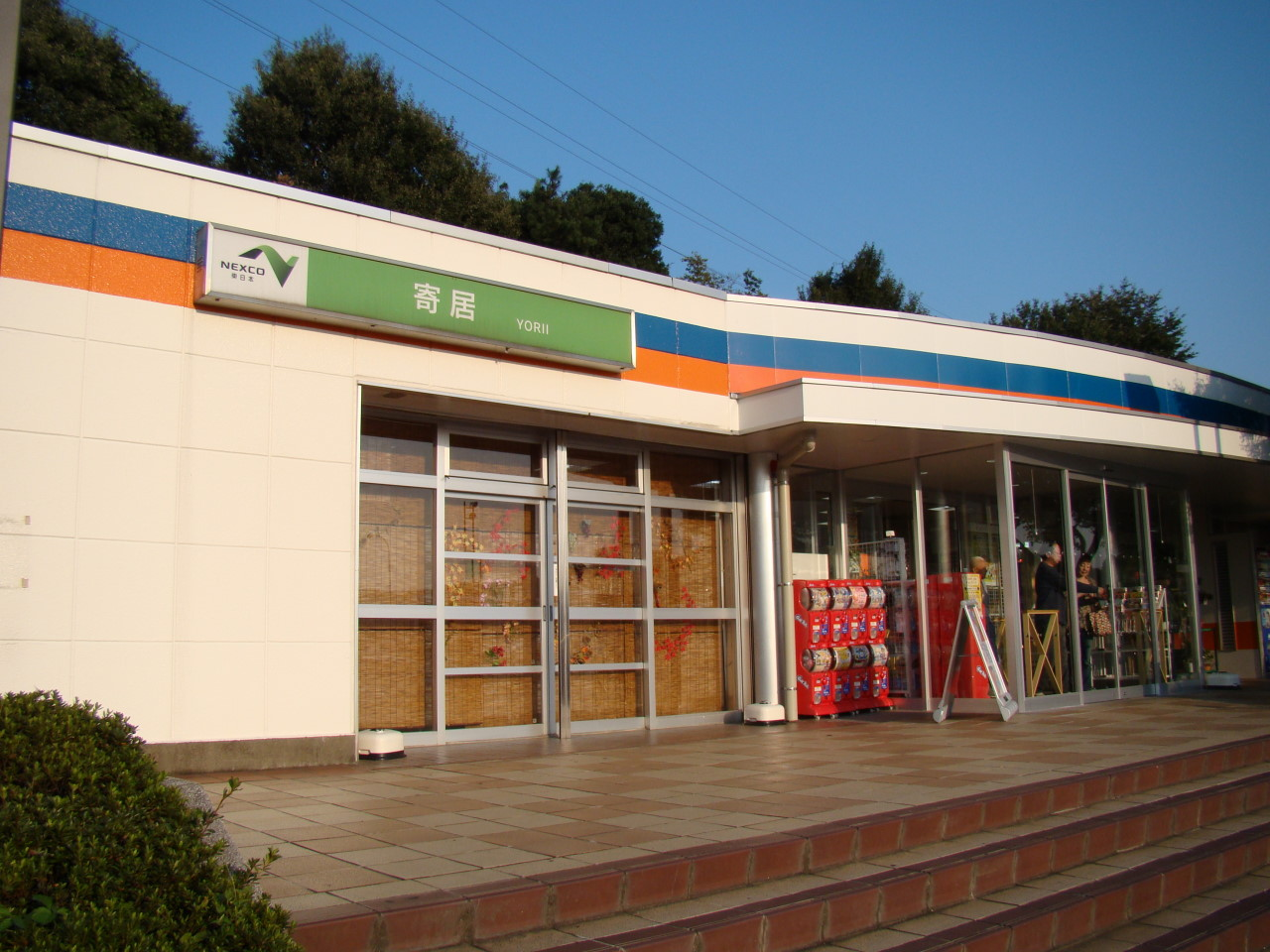 Yorii Parking Area on the Kan-etsu Expressway southbound line in Saitama Prefecture, Japan